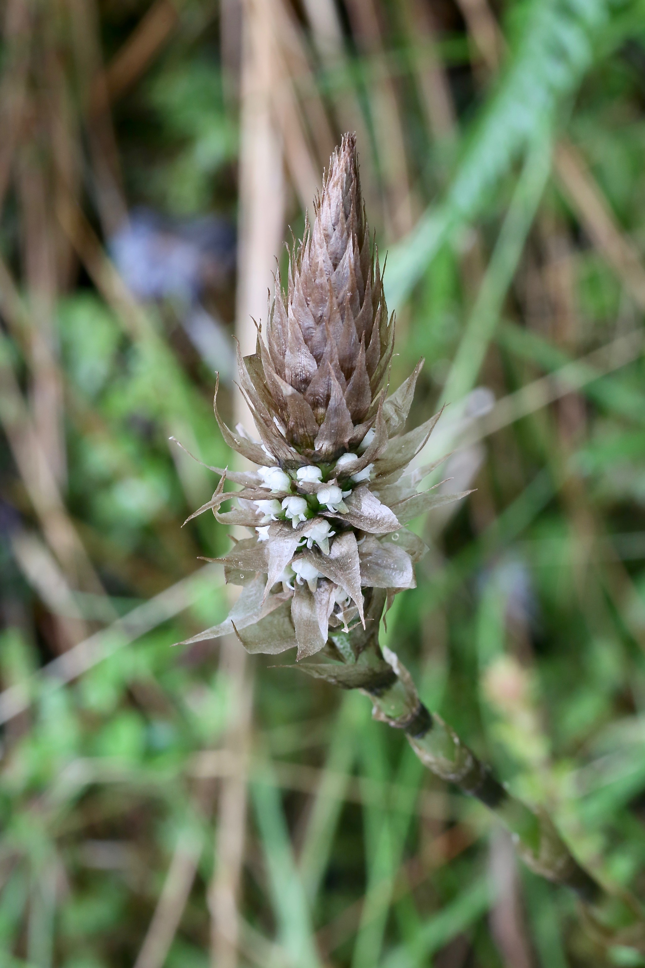 Ecuador, Napo Province, Cayambe Coca National Park Checkpoint (5 km N of Papallacta), páramo, 3700 m